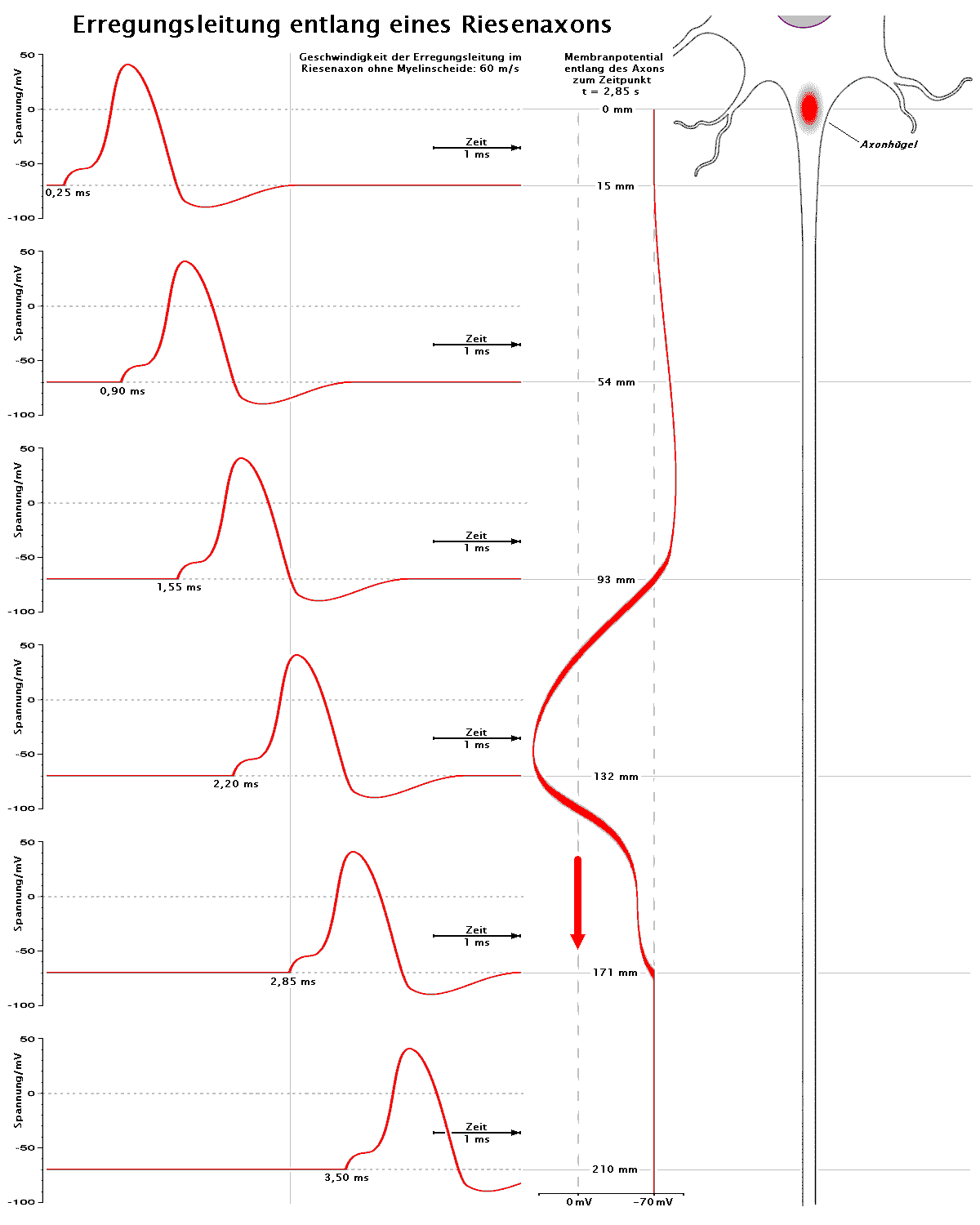 Propagation of action potential along an unmyelinated giant axon